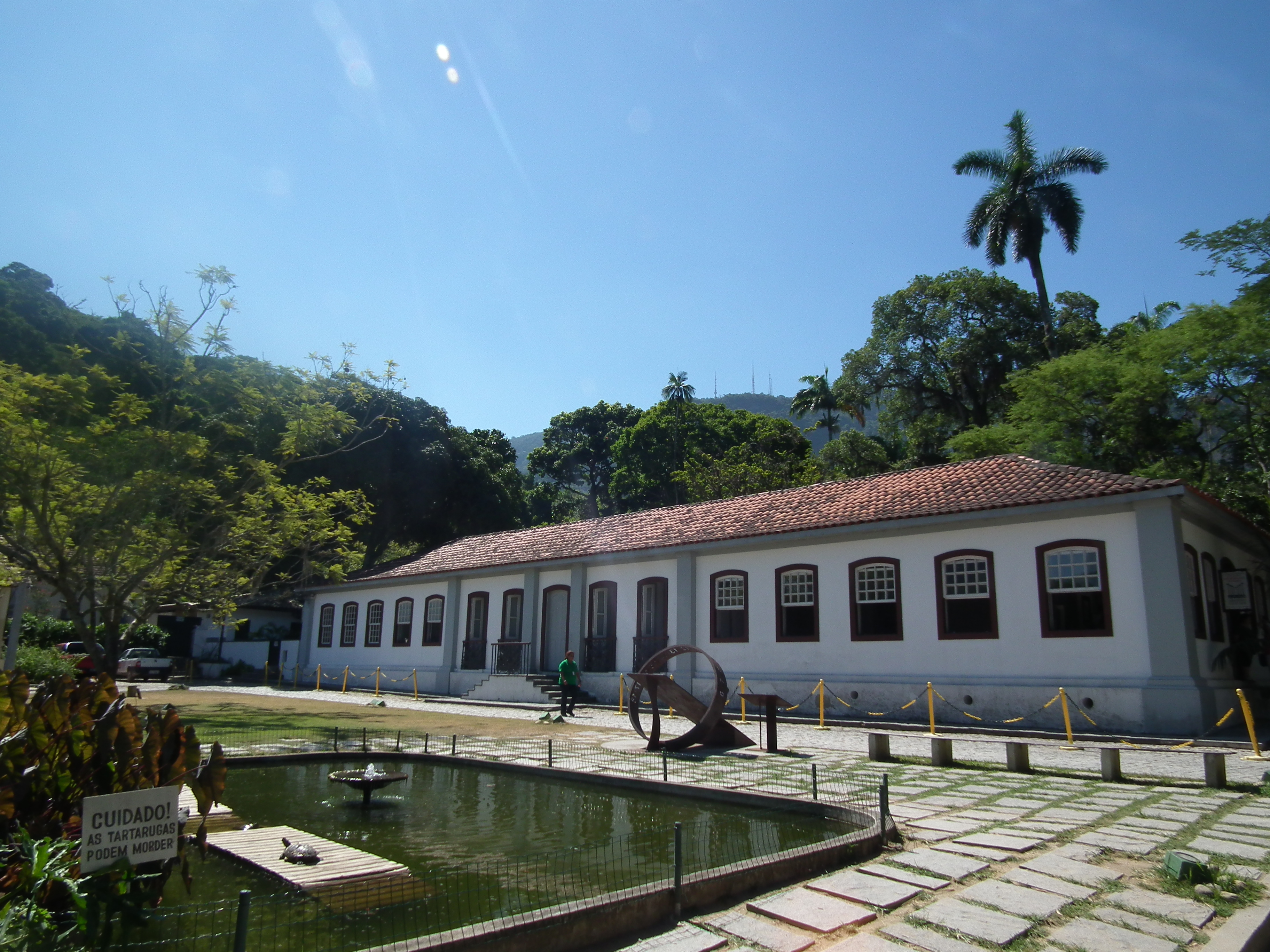 Visitor Centre (Centro de Visitantes) of the Botanical Garden of Rio de Janeiro, Brazil